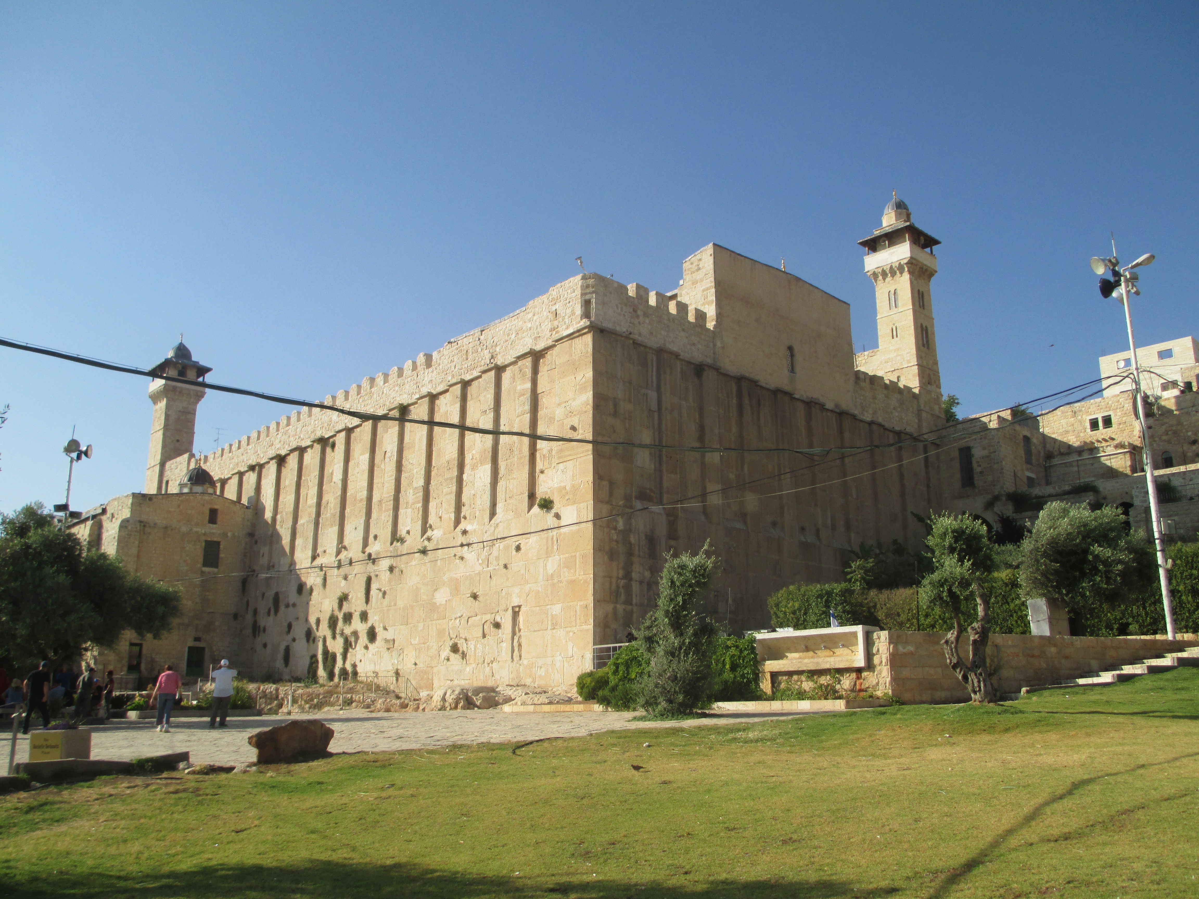 Cave of the Patriarchs